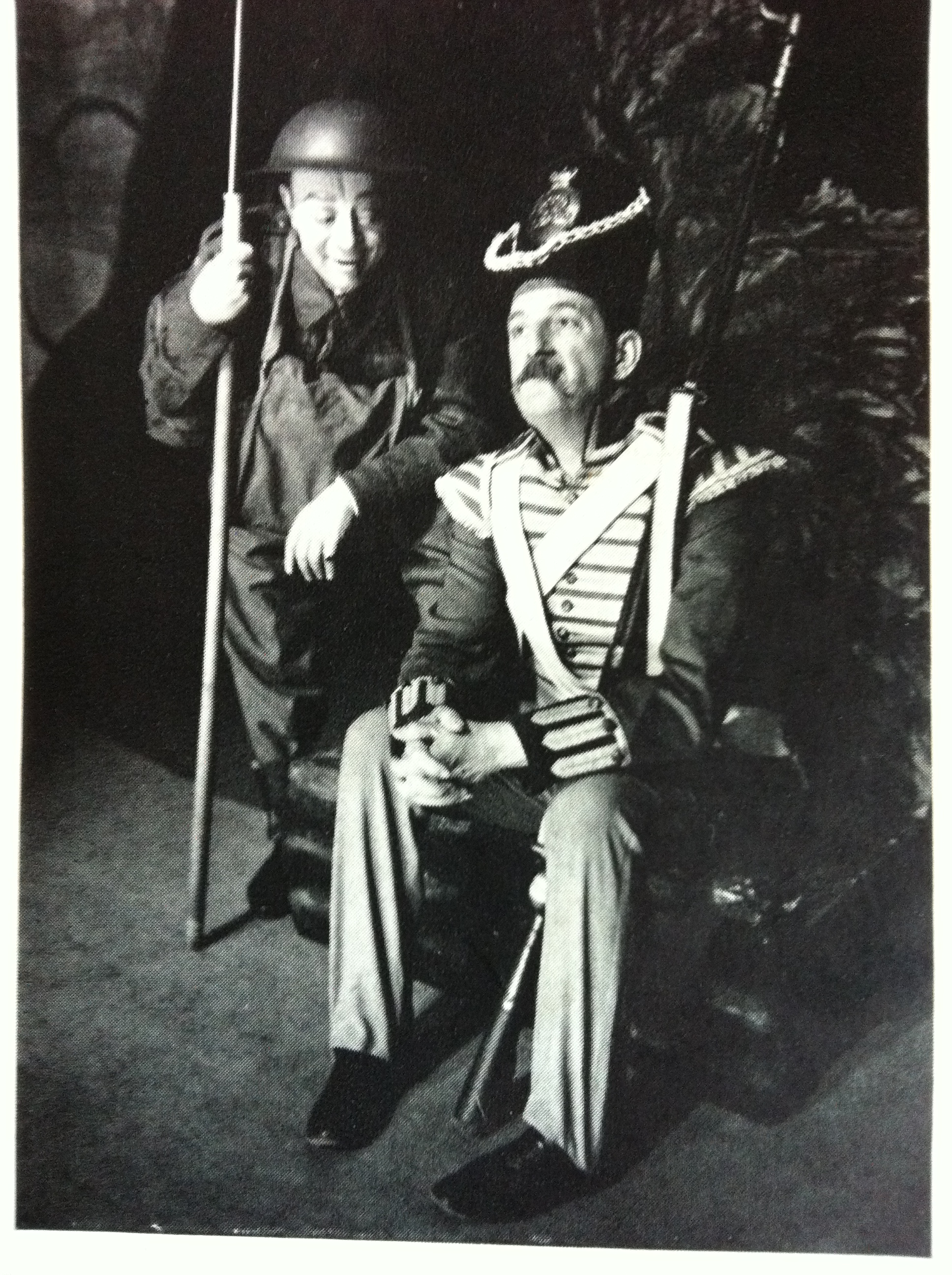 Stanley Holloway as "Sam Small" starring alongside Leslie Henson